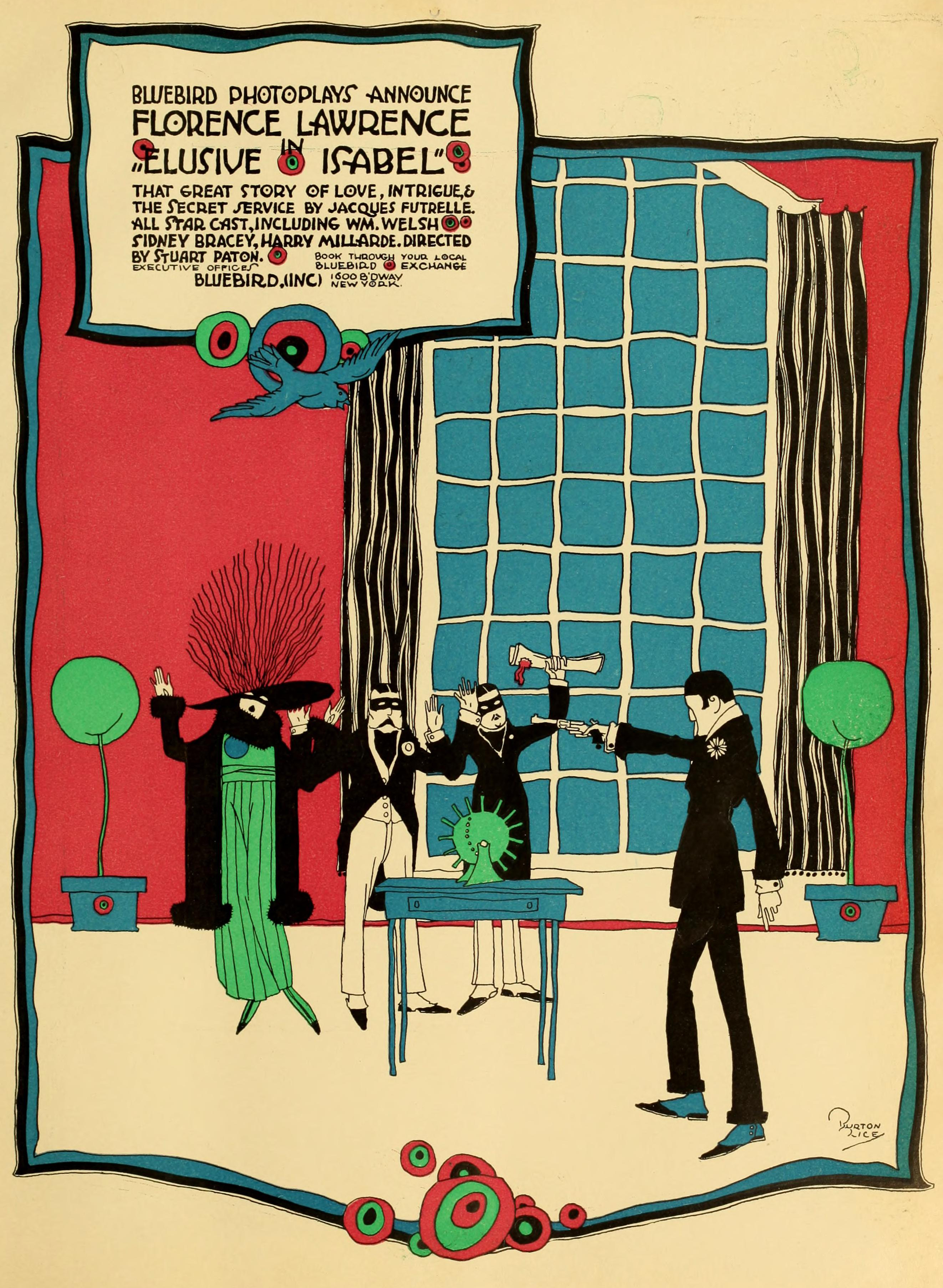 Advertisement in The Moving Picture World